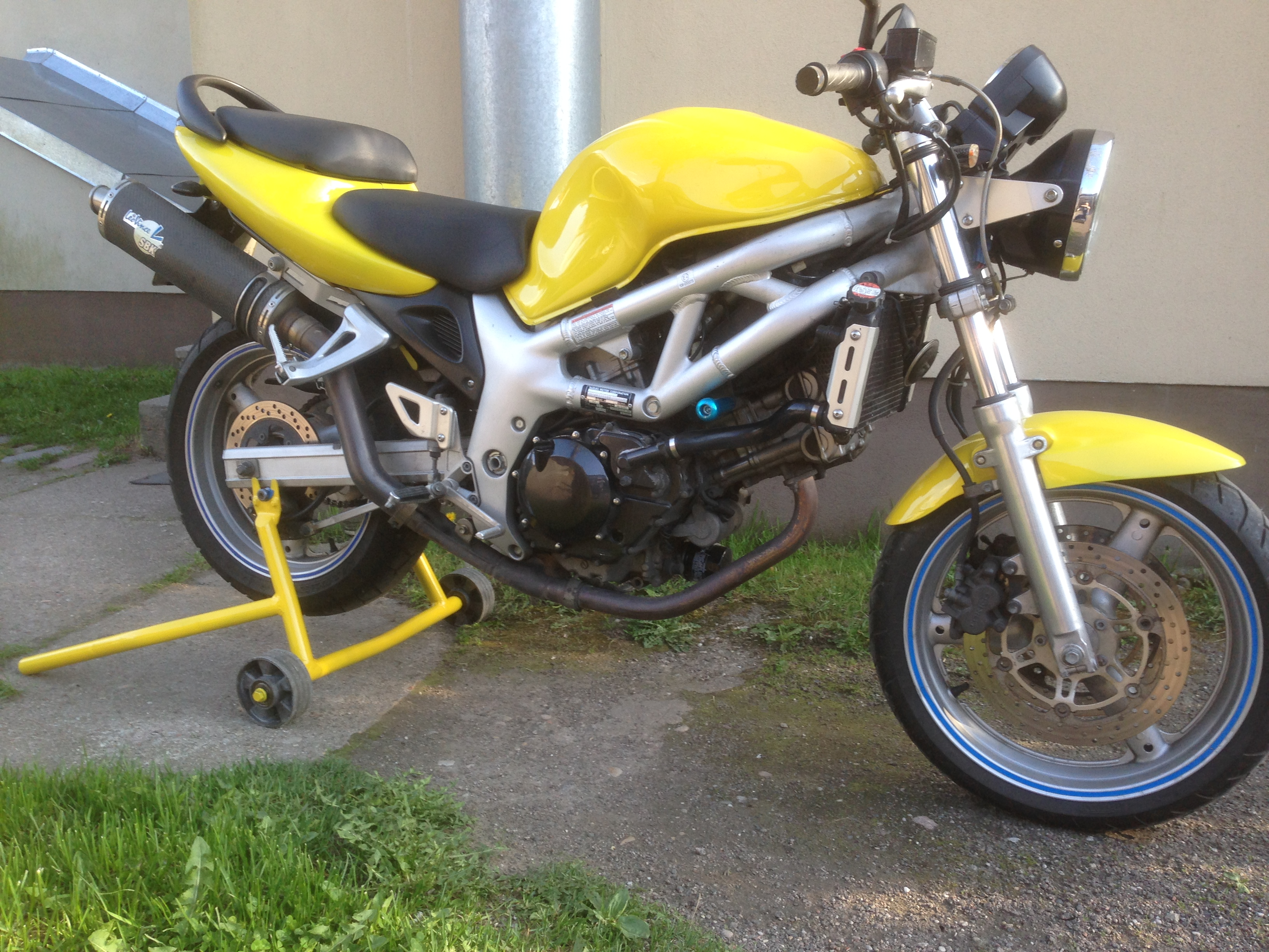 Foto of my Suzuki SV 650 (2002).